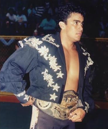 Professional wrestler Ray Gonzalez during his first run as the World Wrestling Council's (WWC) as the Universal Heavyweight Champion.